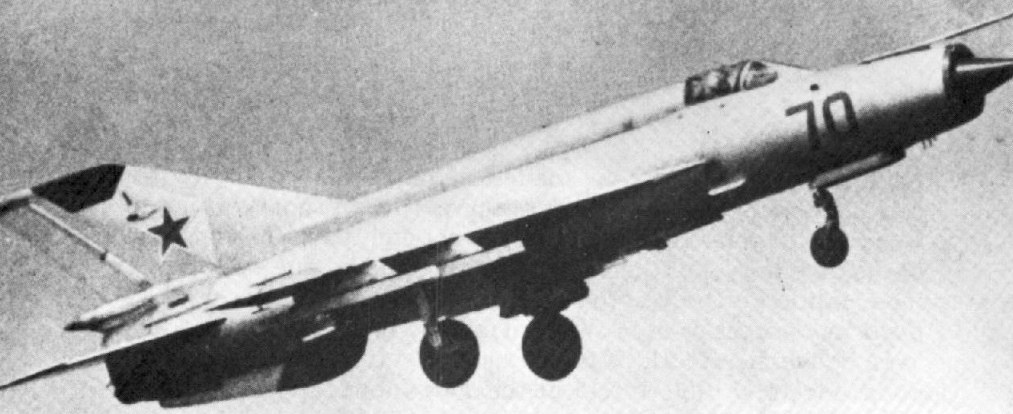 An MiG-21 fighter-bomber, one of several Somali Air Force combat aircraft (ca. 1981).